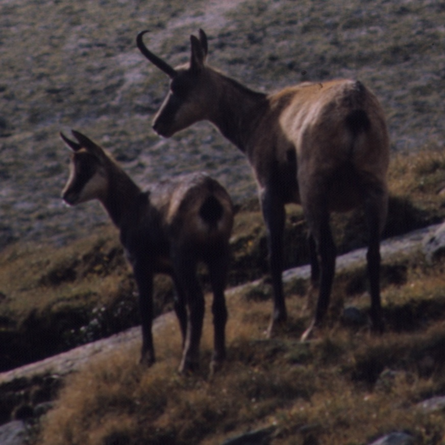 Remix (crop) of Wikimedia Commons file: Camosci_nel_Parco_Nazionale_del_Gran_Paradiso.jpg released by user @CamDib under CC-BY-SA-4.0 Changes: crop to the animals only; 2 degree clockwise rotation; used clone tool to edit out scanner mark in front of the larger animal's eyes.